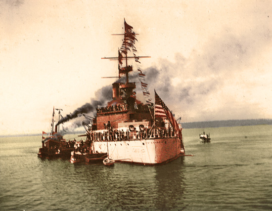 Wisconsin -- as flagship, Pacific Squadron -- with Rear Admiral Silas Casey embarked, arrived at Panama, Colombia, on 30 September 1902.